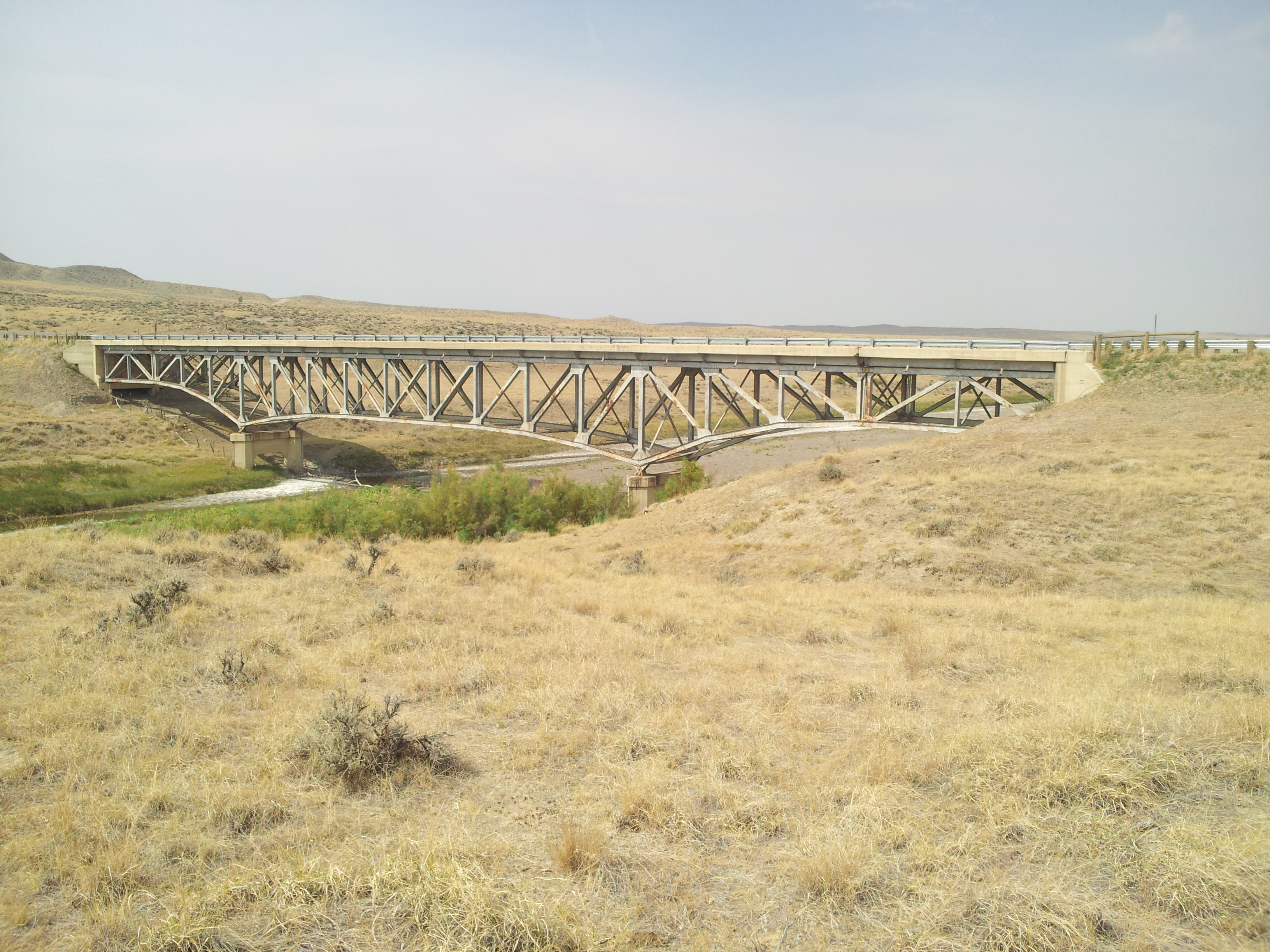 The AJX Bridge located on the National Register of Historic Places is on the I-25 Frontage road 7 miles south of Kaycee Wyoming